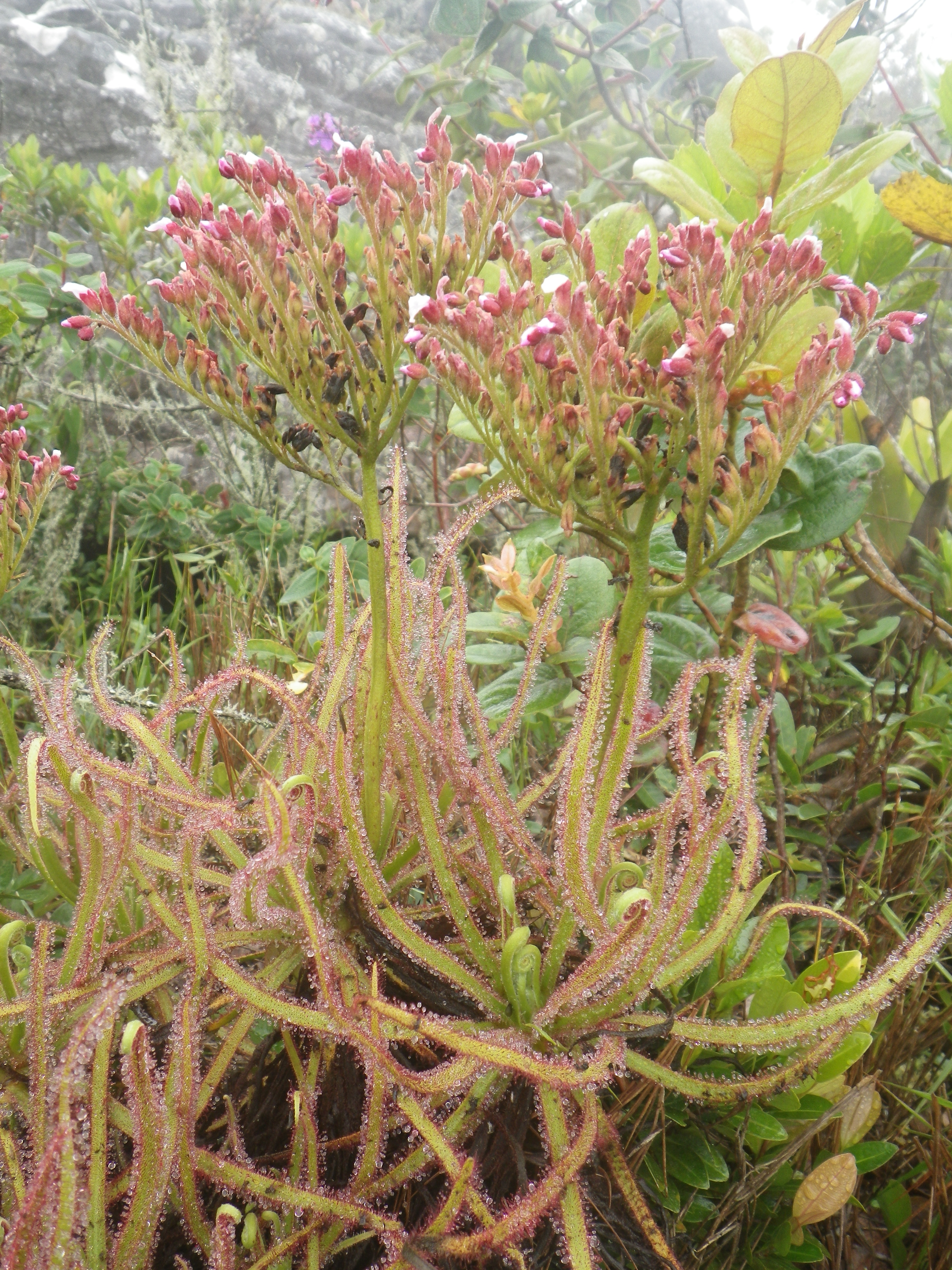 Drosera magnifica in habitat - Brazil